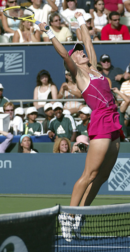 Tennis player Elena Dementieva, winning a Master Series at Los Angeles, CA.